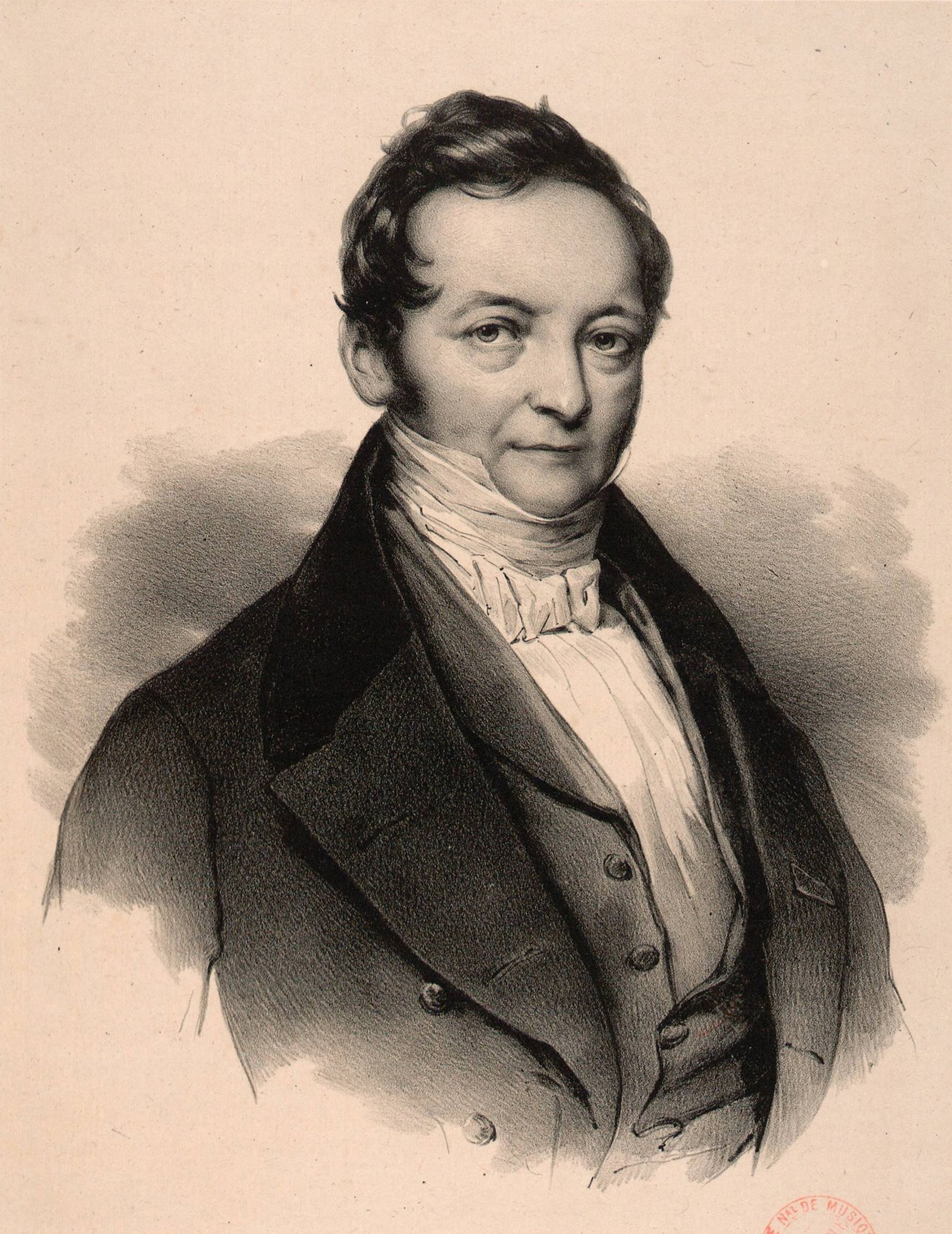 Portrait of Vernoy de Saint-Georges.